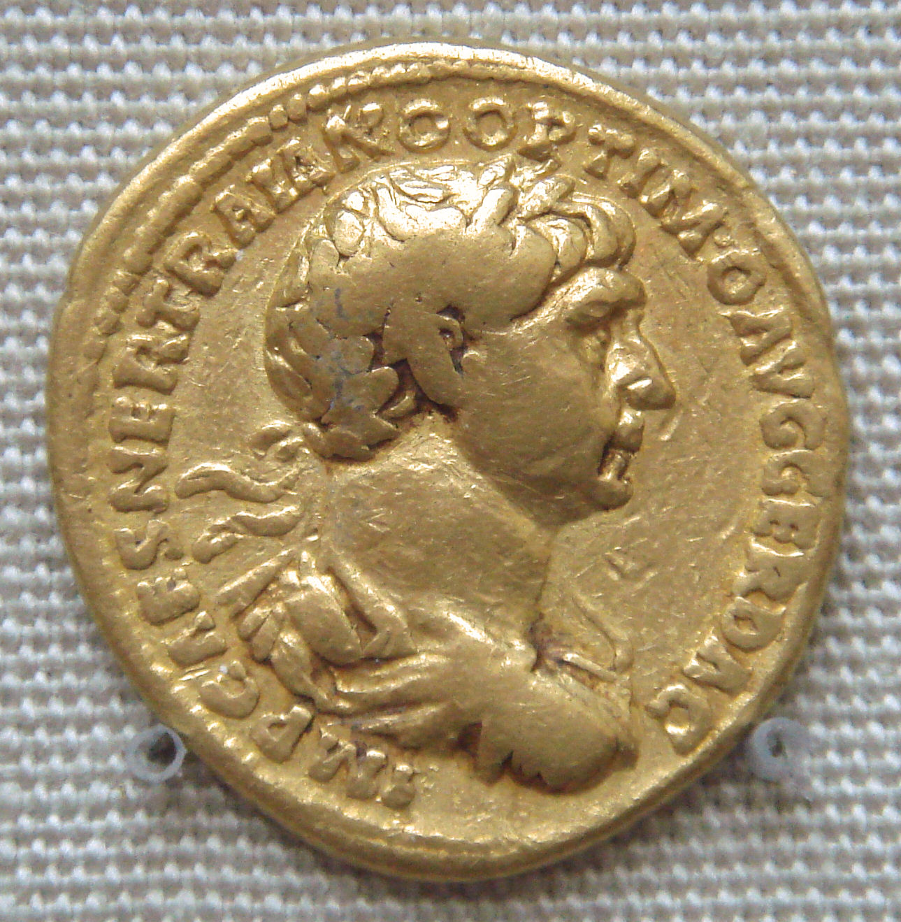 A coin of Trajan, found in the Ahinposh Buddhist monastery in Afghanistan, together with coins of Kanishka.